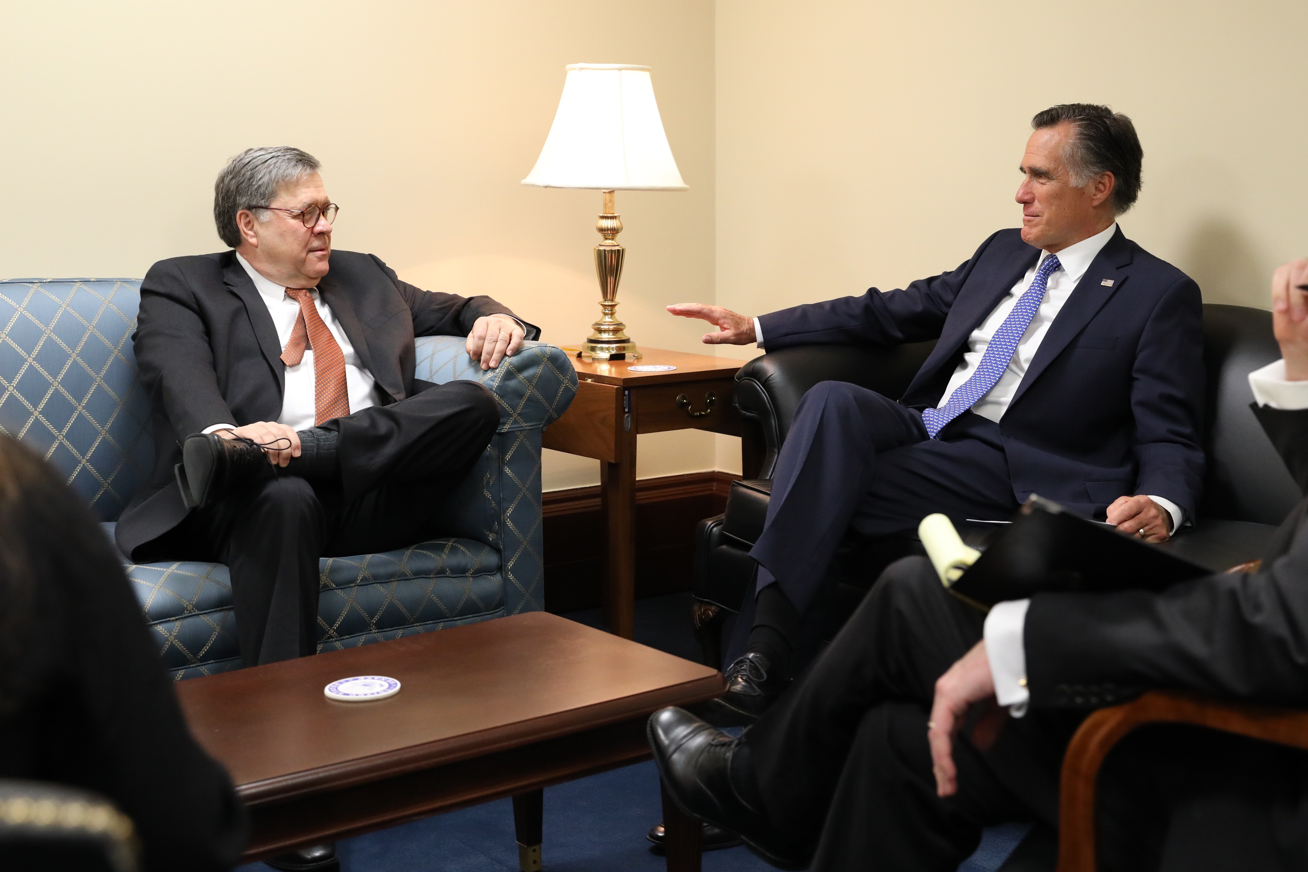 Thursday, February 7, 2019 WASHINGTON—Senator Mitt Romney released the following statement in support of William Barr’s nomination to serve as Attorney General of the United States: “After carefully reviewing William Barr’s record and meeting with him personally to discuss his experience and qualifications, it is clear that he is exceptionally qualified to serve as Attorney General. Mr. Barr has a distinguished record of public service, and I believe he will provide strong leadership, respect and defend the rule of law, and maintain the Department of Justice’s independence. I am also confident in his commitments to allow the Special Counsel to continue its investigation unimpeded and to be as transparent as possible with the American people regarding the results of that investigation. I look forward to voting in support of his nomination.”